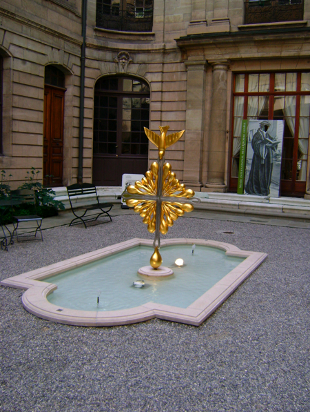 Mallet's House in Geneva (Switzerland), international museum of Reformation.